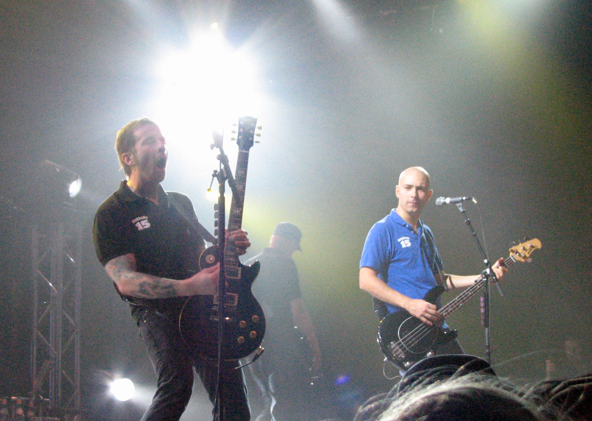 Millencolin at Conventum, Örebro, Sweden April 12, 2008.